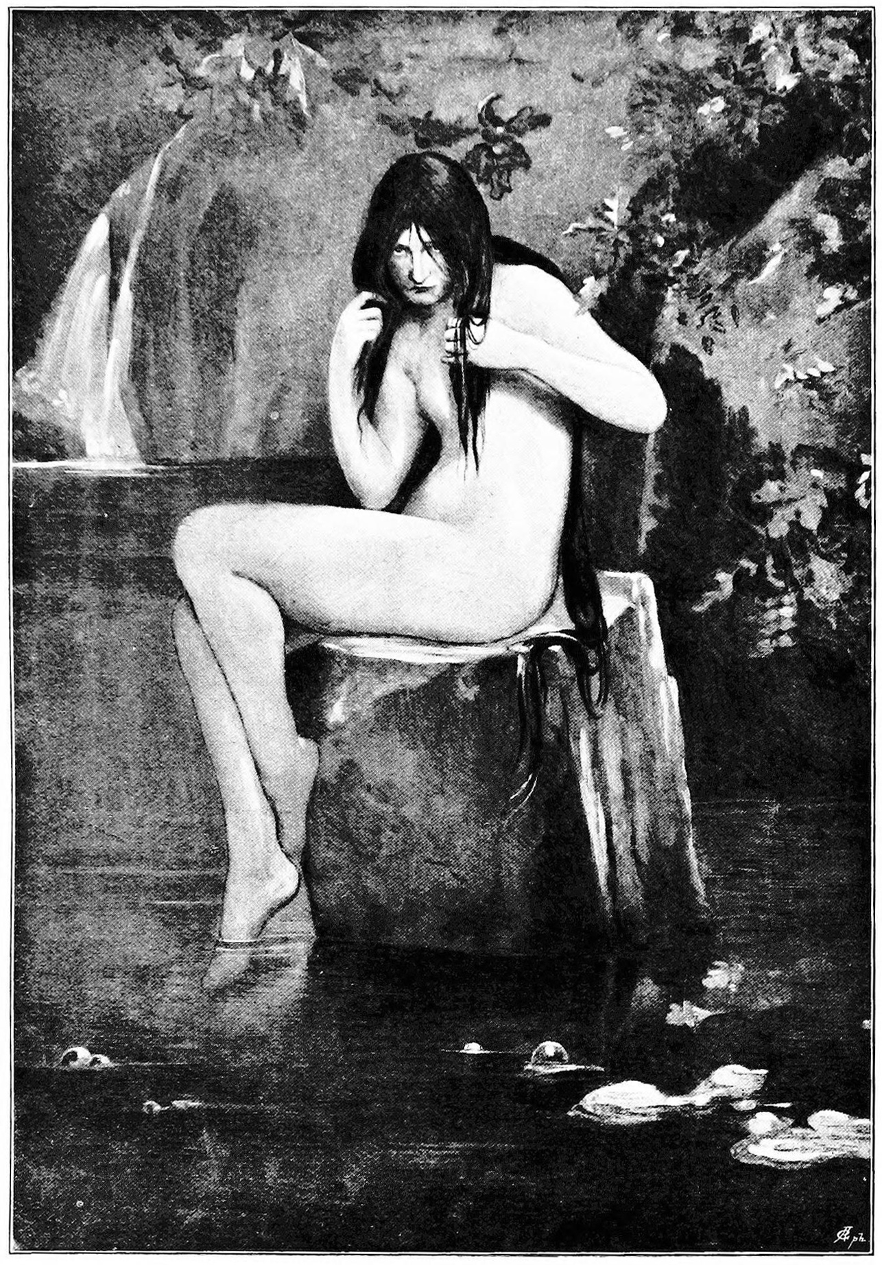 Higher resolution image of painting The Kelpie by Thomas Millie Dow